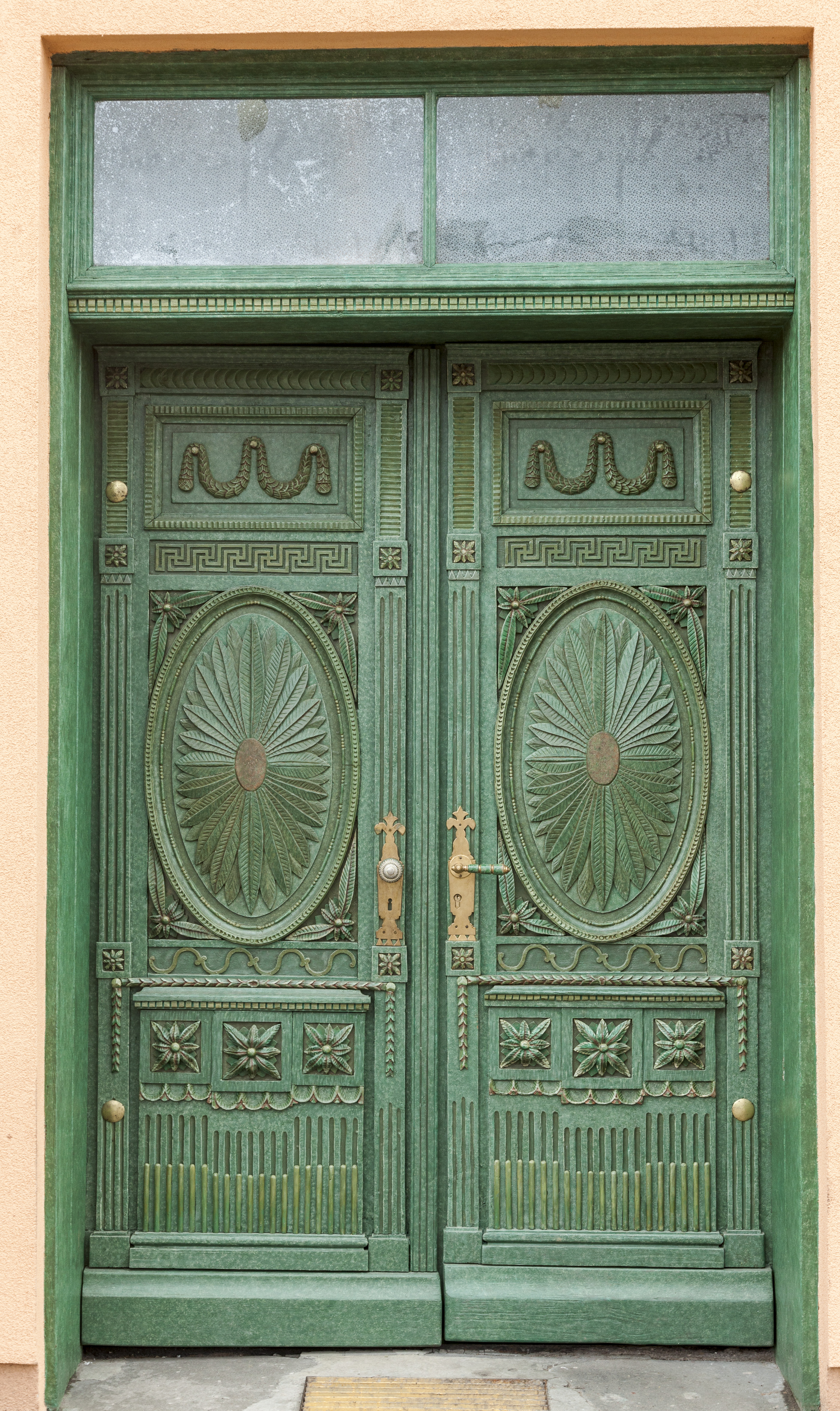 Door at 7 Kościuszki Sq. in Nowy Staw, Poland.